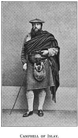 John F. Campbell of Islay, famous folktale collector, in traditional garb (kilt, sporran, tam o' shanter, etc.)